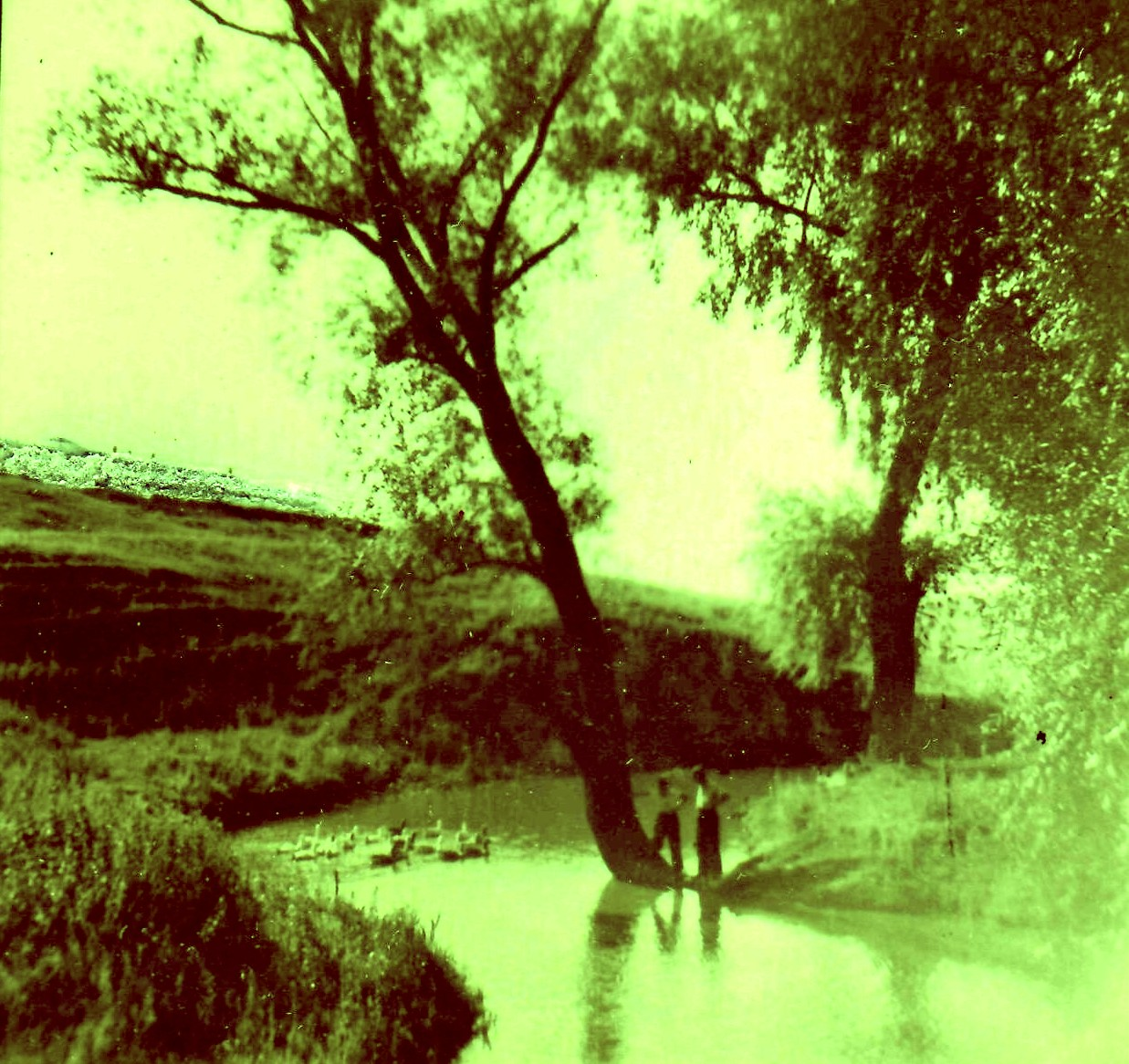 River Steha, village Kovalivka, Shishatskiy district, Poltava region, Ukraine, 1959